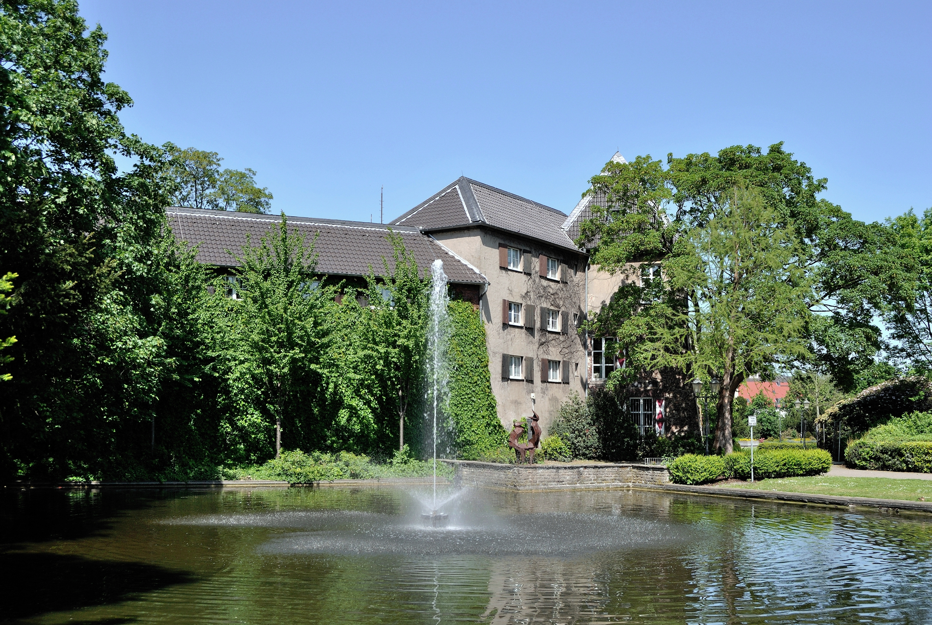 Dinslaken (North Rhine-Westphalia, Germany) – Dinslaken Castle – southeast side Concerning this file, a RAW file still exists. This photograph was taken with a Nikon D3000